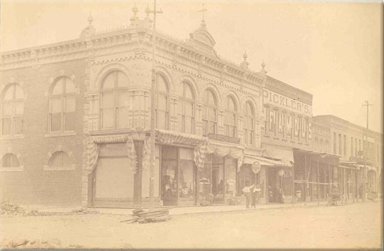 Taken in early 1893 by the commerical photographer Drake. donated to the Pickler Memorial Library at Truman State University in Kirksville. "Pickler Famous" Dry Goods Store is the second building from the left and is still in the same place on the 100 W. block of Harrison in Kirksville. Part of the Kirksville Courthouse Square Historic District on the NRHP since May 21, 2009, which includes the 200 block N. Franklin St., 100 block E. Harrison St., 100 block W. Harrison St., Kirksville, Adair County, MO.